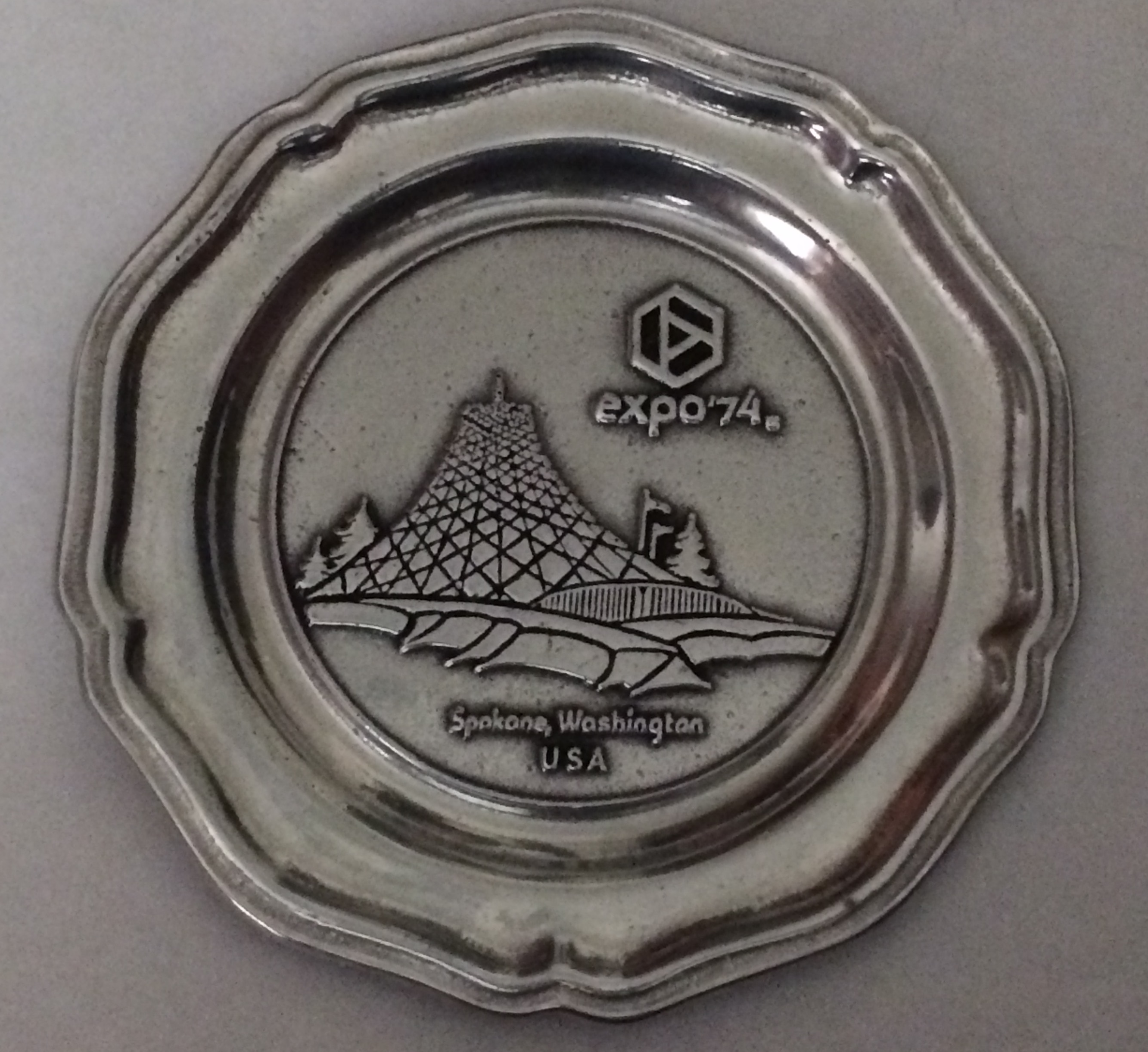 Souvenir plate from Expo '74.